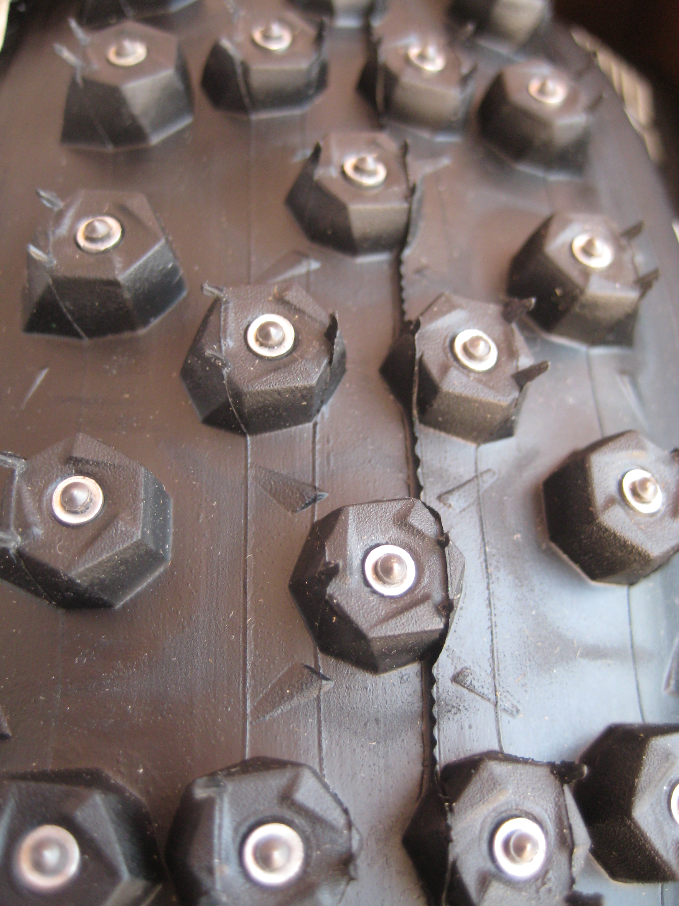 studded bicycle tire schwalbe Ice Spiker Pro